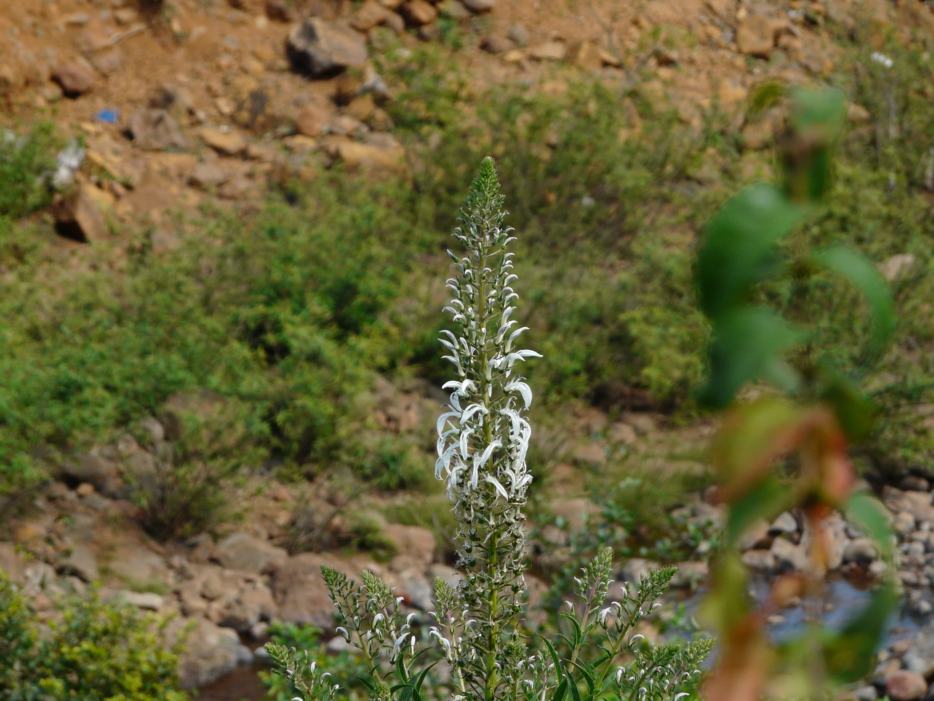 Campanulaceae (bellflower family) » Lobelia nicotianifolia low-BEL-ee-uh -- named for Mathias de L'Obel, 16th century Belgian botanist nih-ko-she-ah-ni-FOH-lee-uh -- leaves resembling to that of genus Nicotiana (tobacco) commonly known as: wild tobacco • Bengali: বাদানাল badanala, নাল nala • Gujarati: નળી nali • Hindi: धवल dhaval, नरसल narsal • Kannada: ಕಾಡು ಹೊಗೆಸೊಪ್ಪು kaadu hogesoppu, ಕಾಡು ತಮ್ಬಾಕು kaadu tambaaku • Konkani: बकनल baknal • Malayalam: കാട് പുകയില kaat pukayila • Marathi: ढवळ dhaval, रान तंबाखू ran-tambakhu • Sanskrit: महानाला mahanala, सुराद्रुम suradruma • Tamil: காட்டுப்புகையிலை kattu-p-pukaiyilai • Telugu: అడవి పొగాకు adavi pogaku Native to: Western Ghats (India), north-east India, Sri Lanka, Indo-Malesia References: Flowers of India • NPGS / GRIN • Sahyadri Database • ENVIS - FRLHT